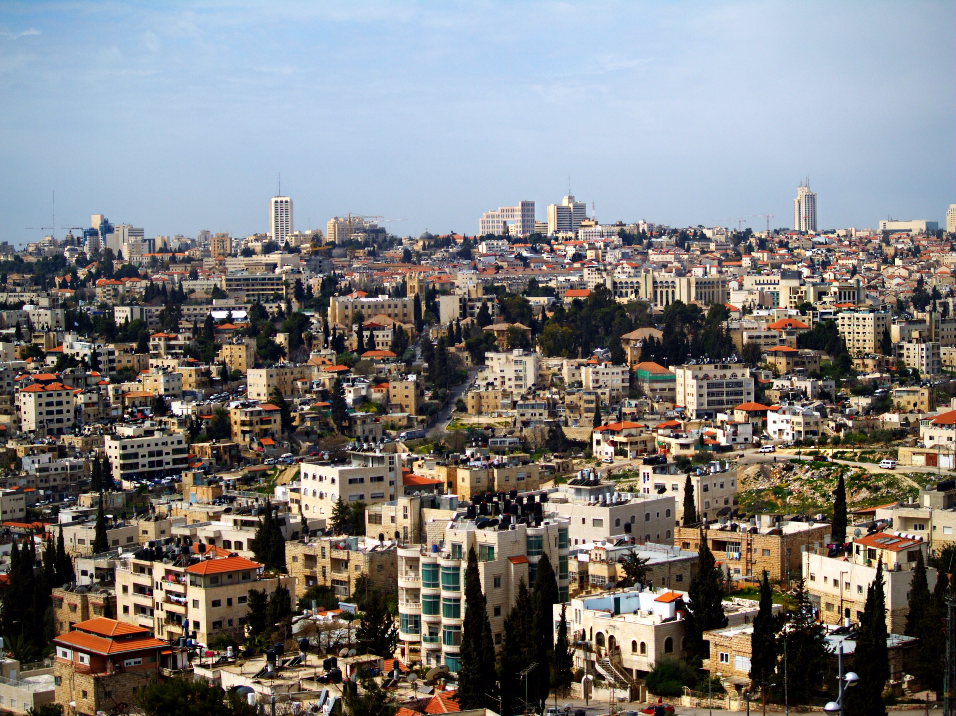 A view of Sheikh Jarrah neighborhood. In the background the city center of Jerusalem.